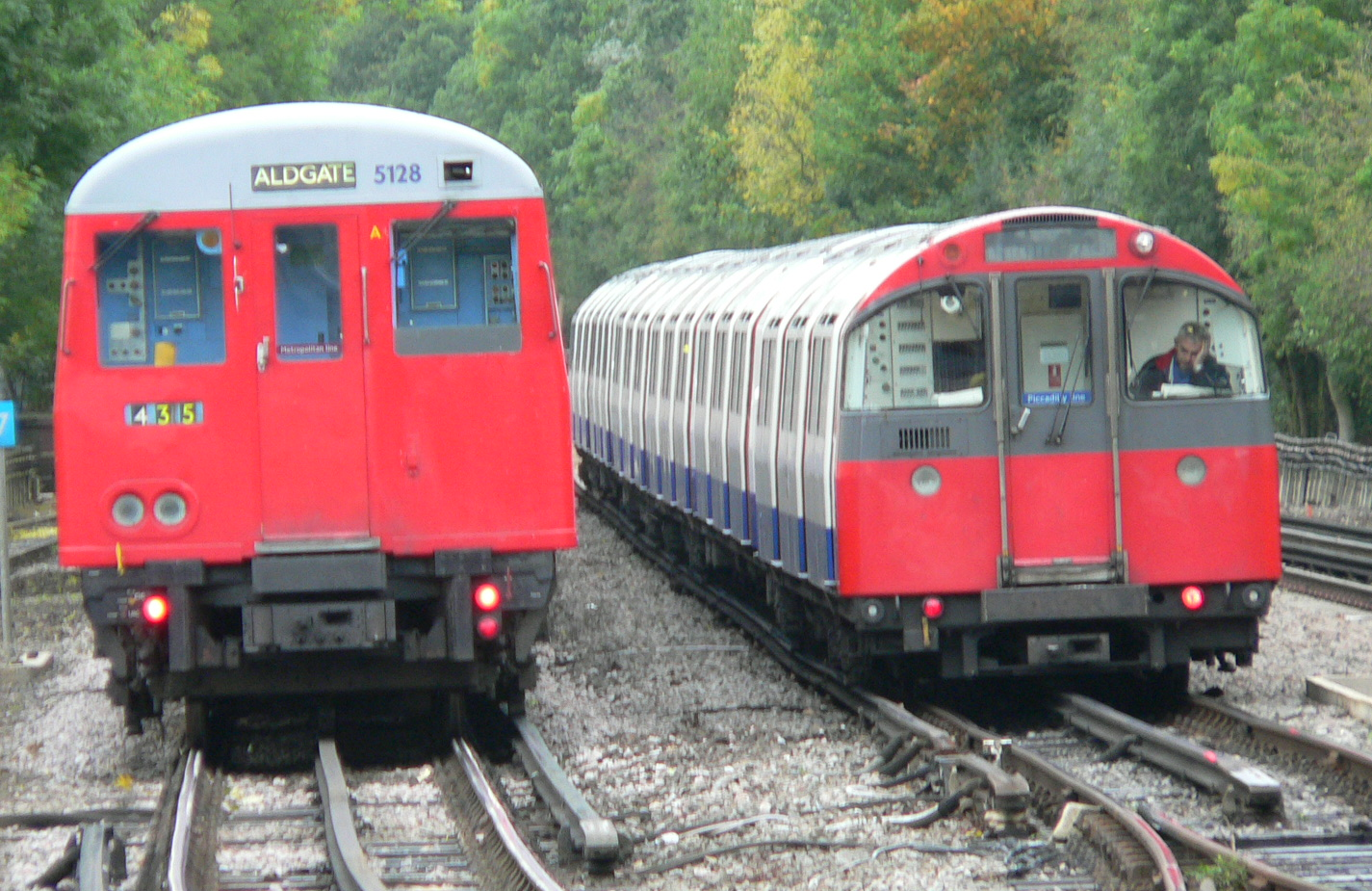 A Metropolitan Line 'A' stock sub-surface gauge train passes a smaller Piccadilly Line 1973 tube stock train. The photograph was taken from the western end of Rayner's Lane tube station on 25 October 2005. The Metropolitan Line train is heading west with a service to Uxbridge while the Piccadilly Line train is in the central reversing siding before commencing a south-bound service to central London via Acton Town and Hammersmith.